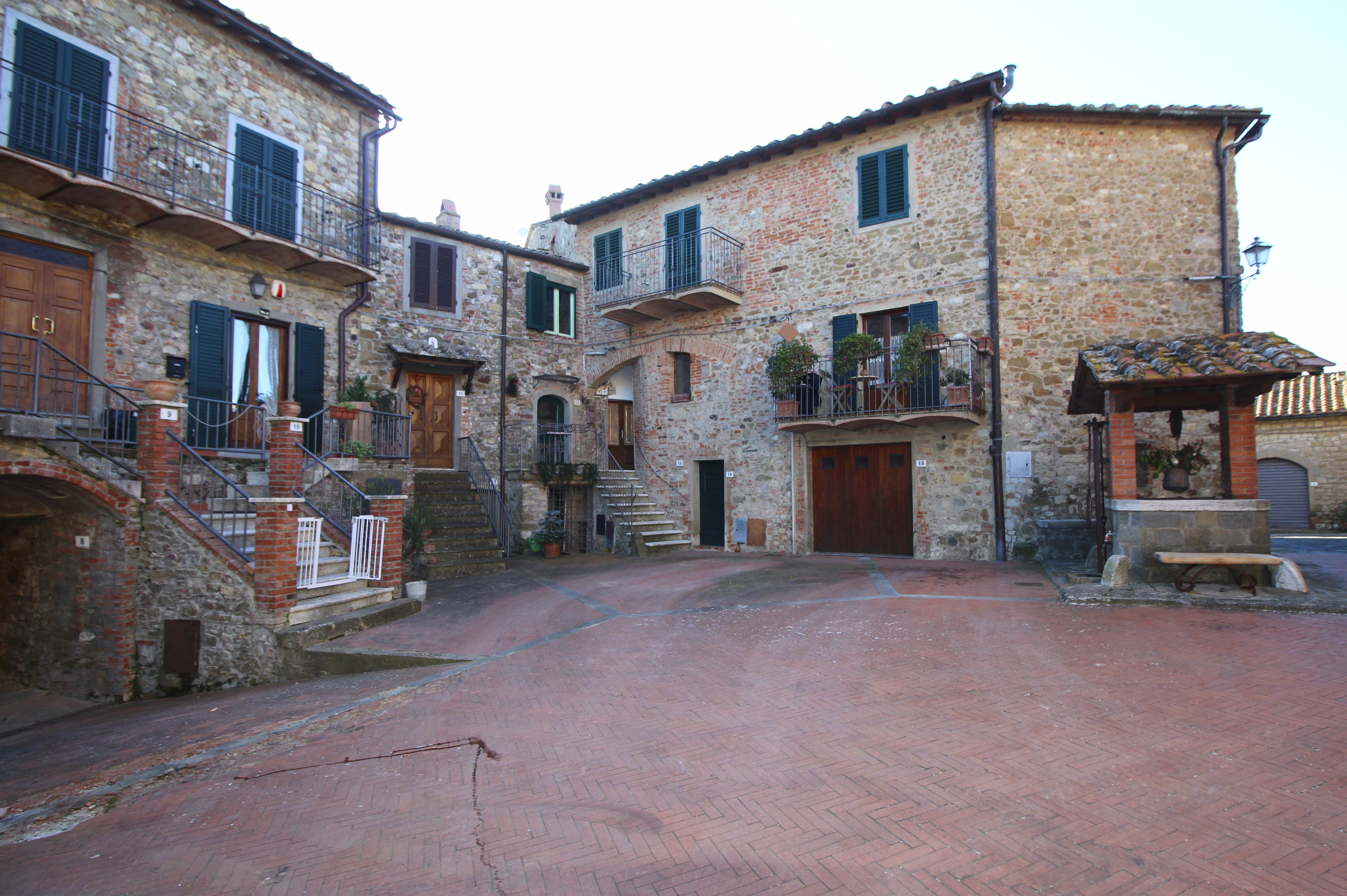 Montebenichi, hamlet of Bucine, Province of Arezzo, Tuscany, Italy